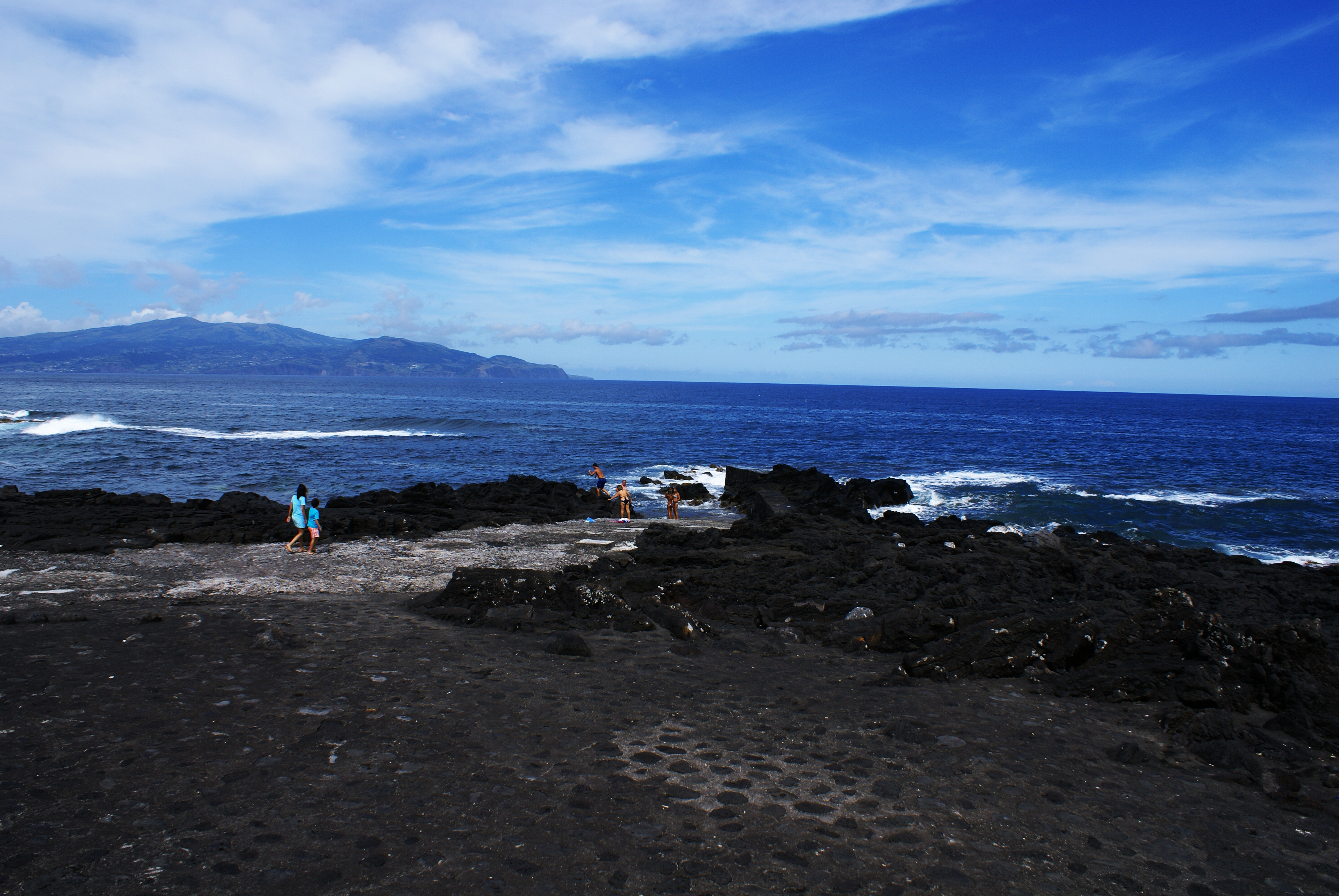 Cais do Mourato, Bandeiras, Madalena, Ilha do Pico, Açores